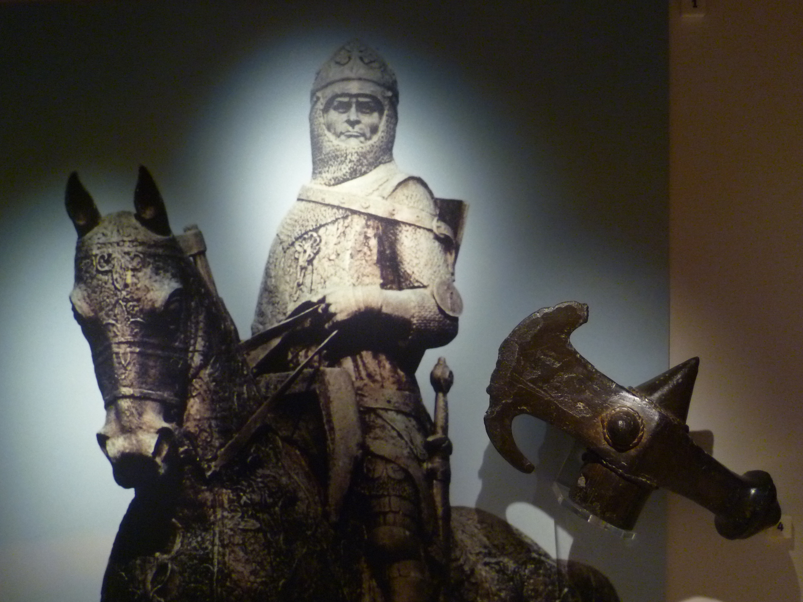 Image showing Pilkington Jackson's statue of Bruce at Bannockburn and an axe, believed to be a Victorian hoax, found on the site of the battlefield in the 19th century. Part of a display in the National Museum for Scotland.